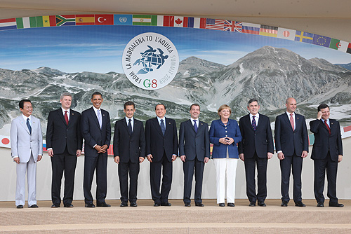 L'AQUILA, ITALY. Before the beginning of G8 summit.